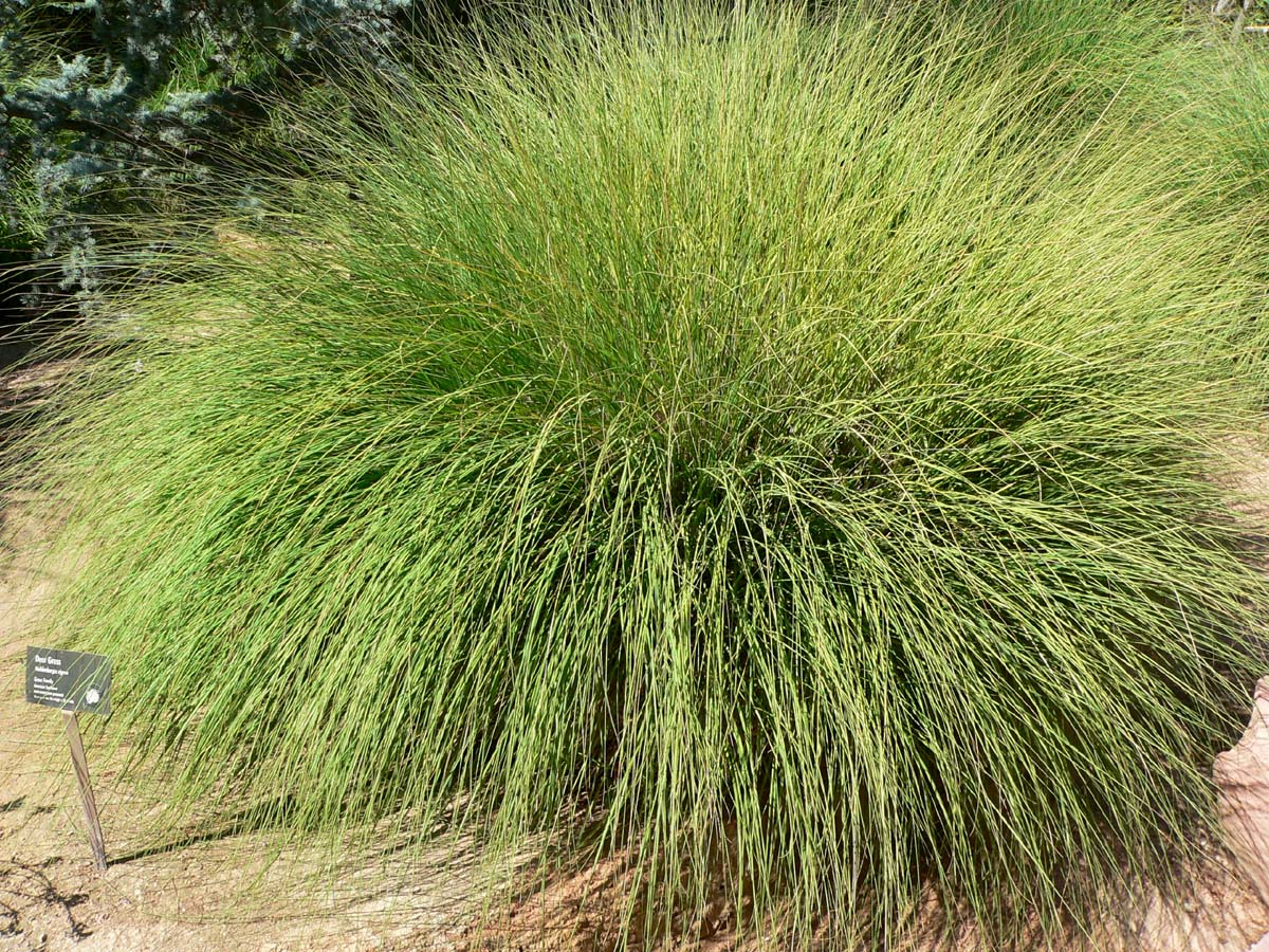 Photo of Muhlenbergia rigens (deer grass) at the Springs Preserve garden in Las Vegas, Nevada